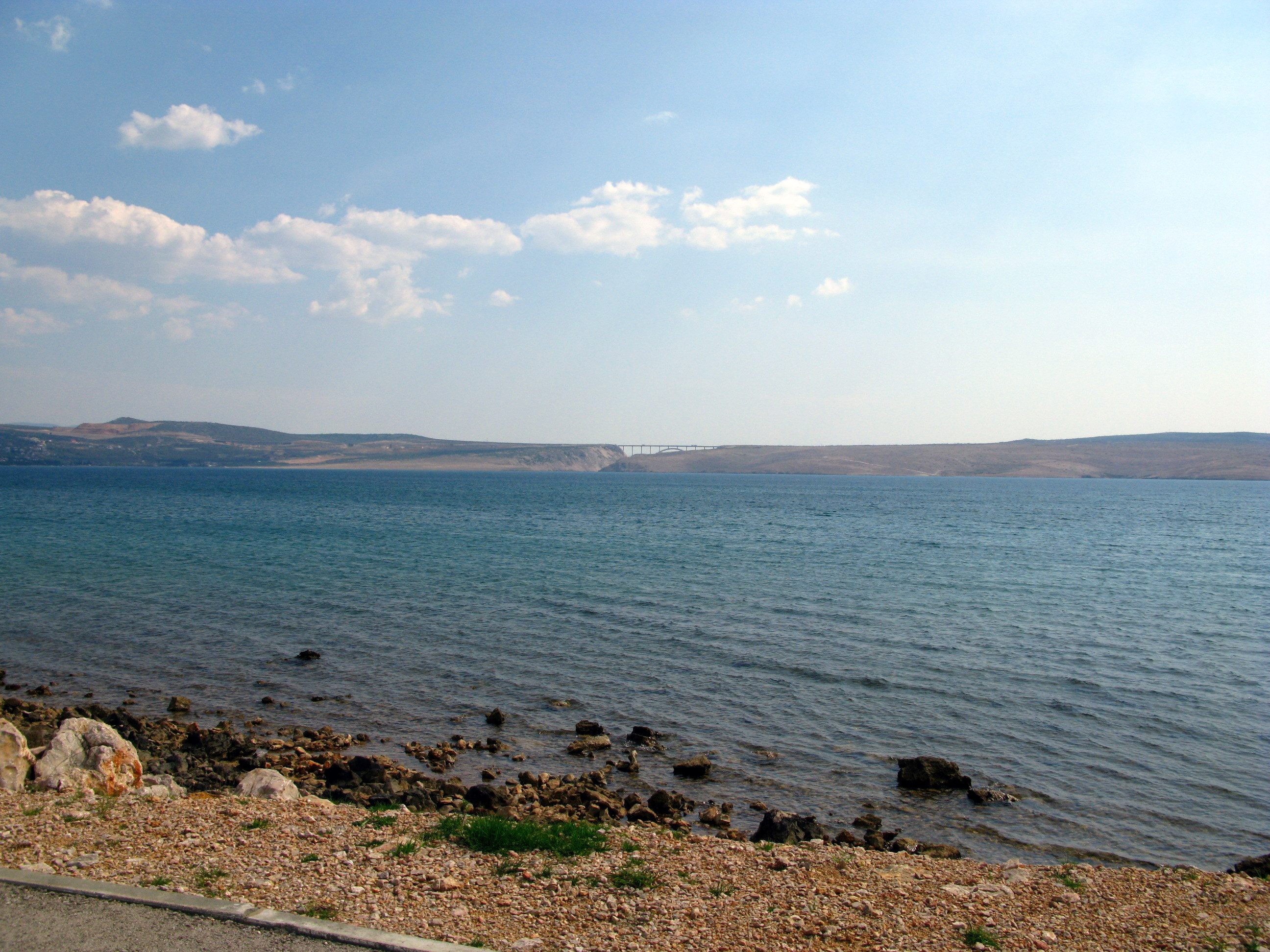 Velebit mountain range in Croatia, seen from Autocesta A1 Hrvatska.